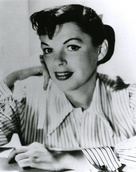 Publicity still of Judy Garland from Warner Brothers 1954 A Star Is Born